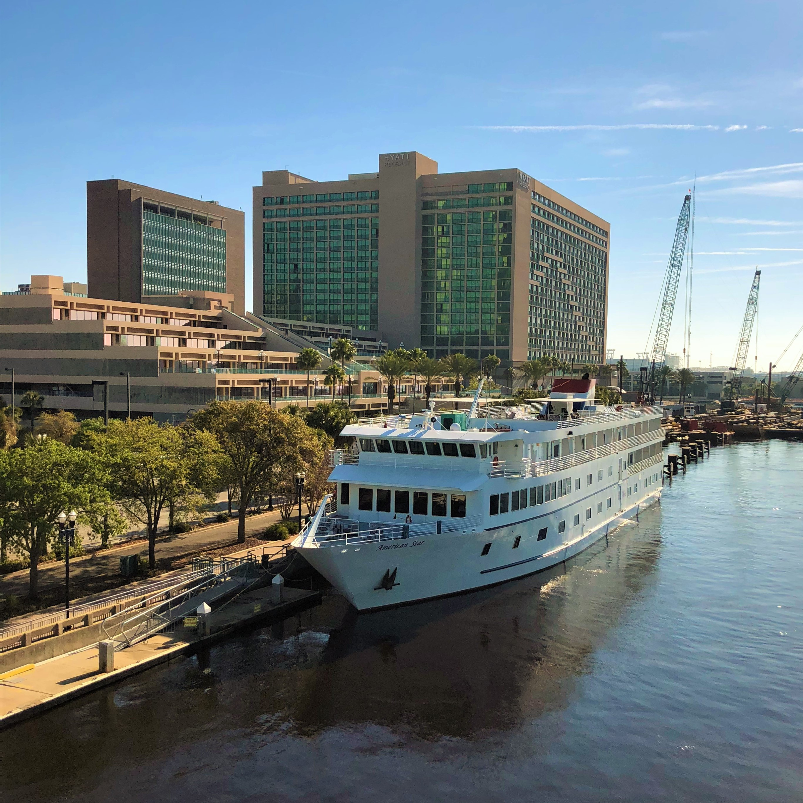 American Cruise Lines ship docked in Jacksonville Florida